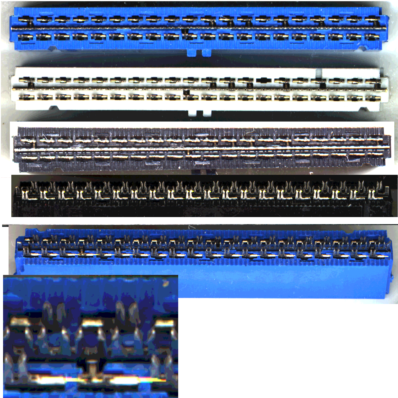 Parallel ATA Connectors showing internal workings